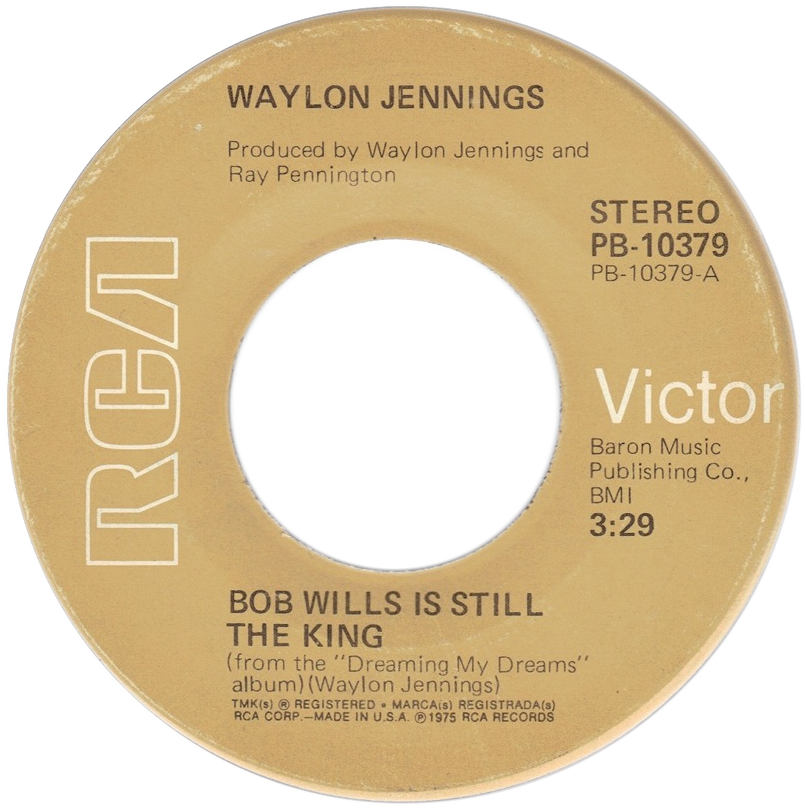 "Bob Wills Is Still the King" by Waylon Jennings US vinyl